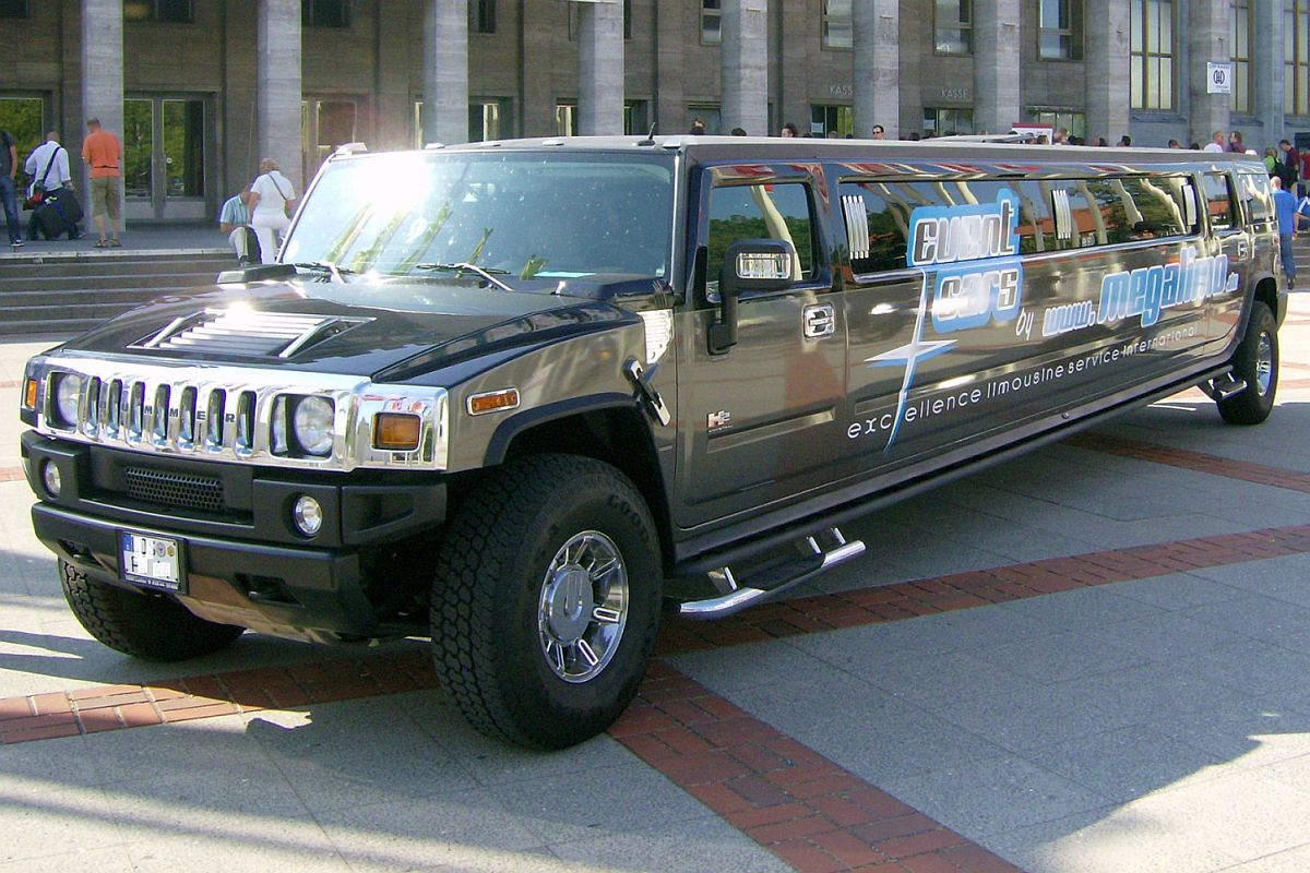 Stretchversion of Hummer H2